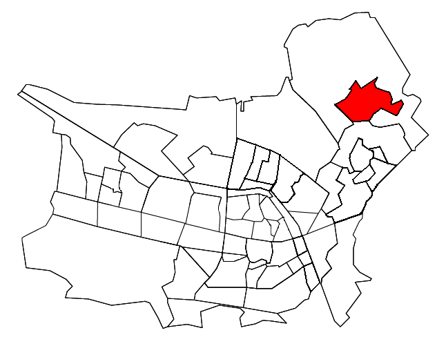 A previous village in the present city Tilburg, the Netherlands